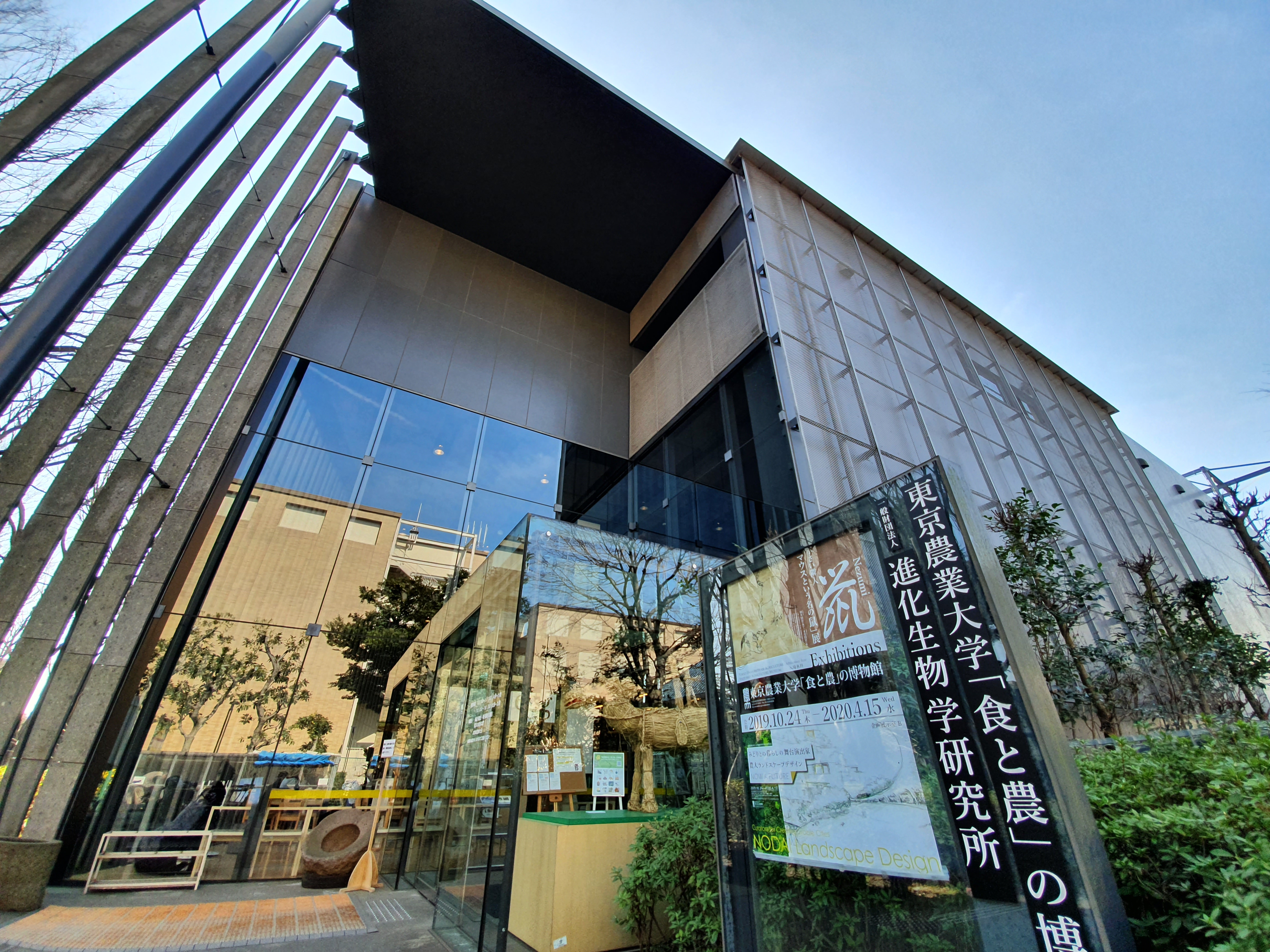 Entrance to the Tokyo Agricultural University Food and Agriculture Museum at the Research Institute of Evolutionary Biology, Tokyo, Japan.